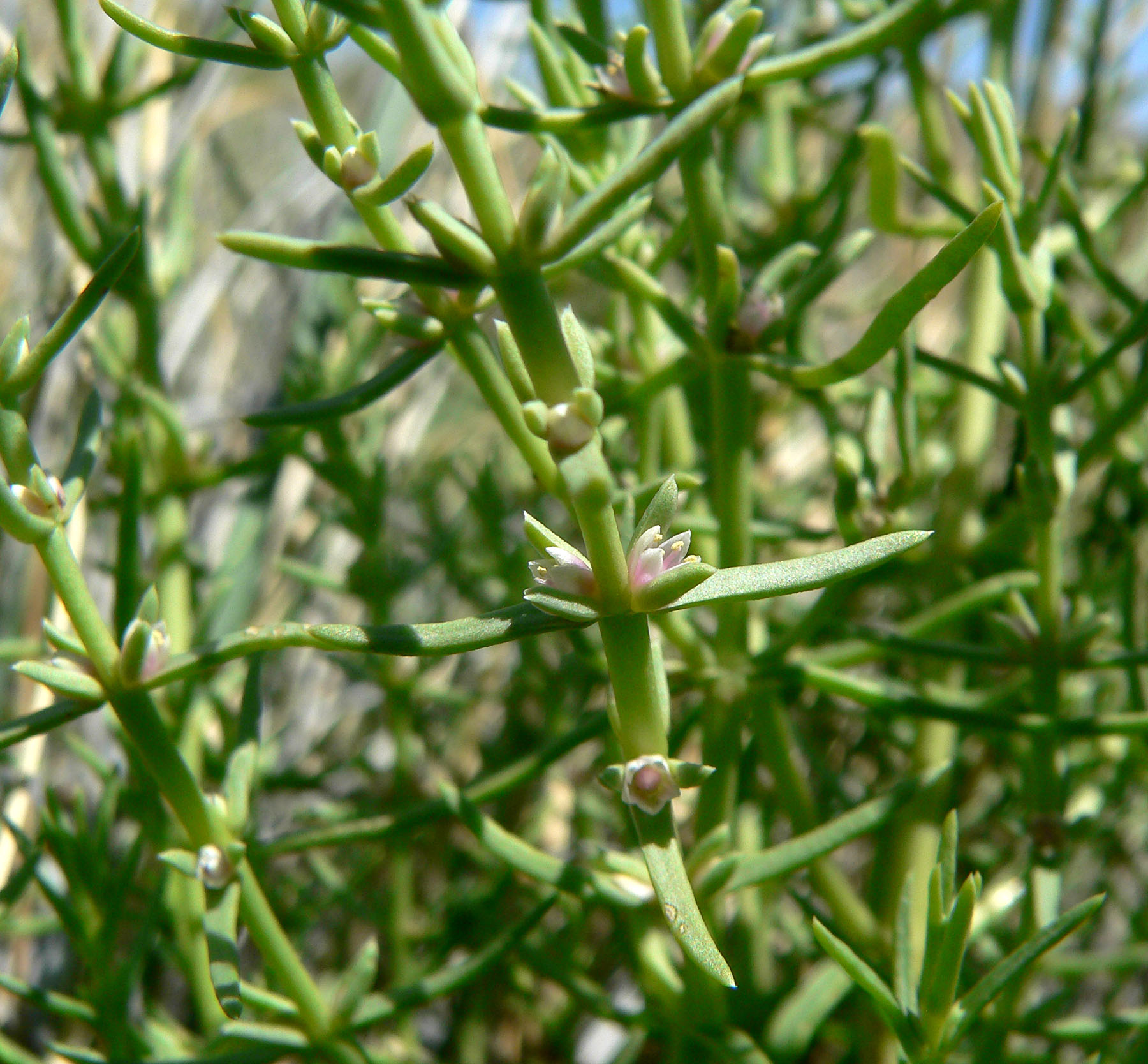 Nitrophila occidentalis on path to Crystal Spring, Ash Meadows National Wildlife Refuge, southern Nevada